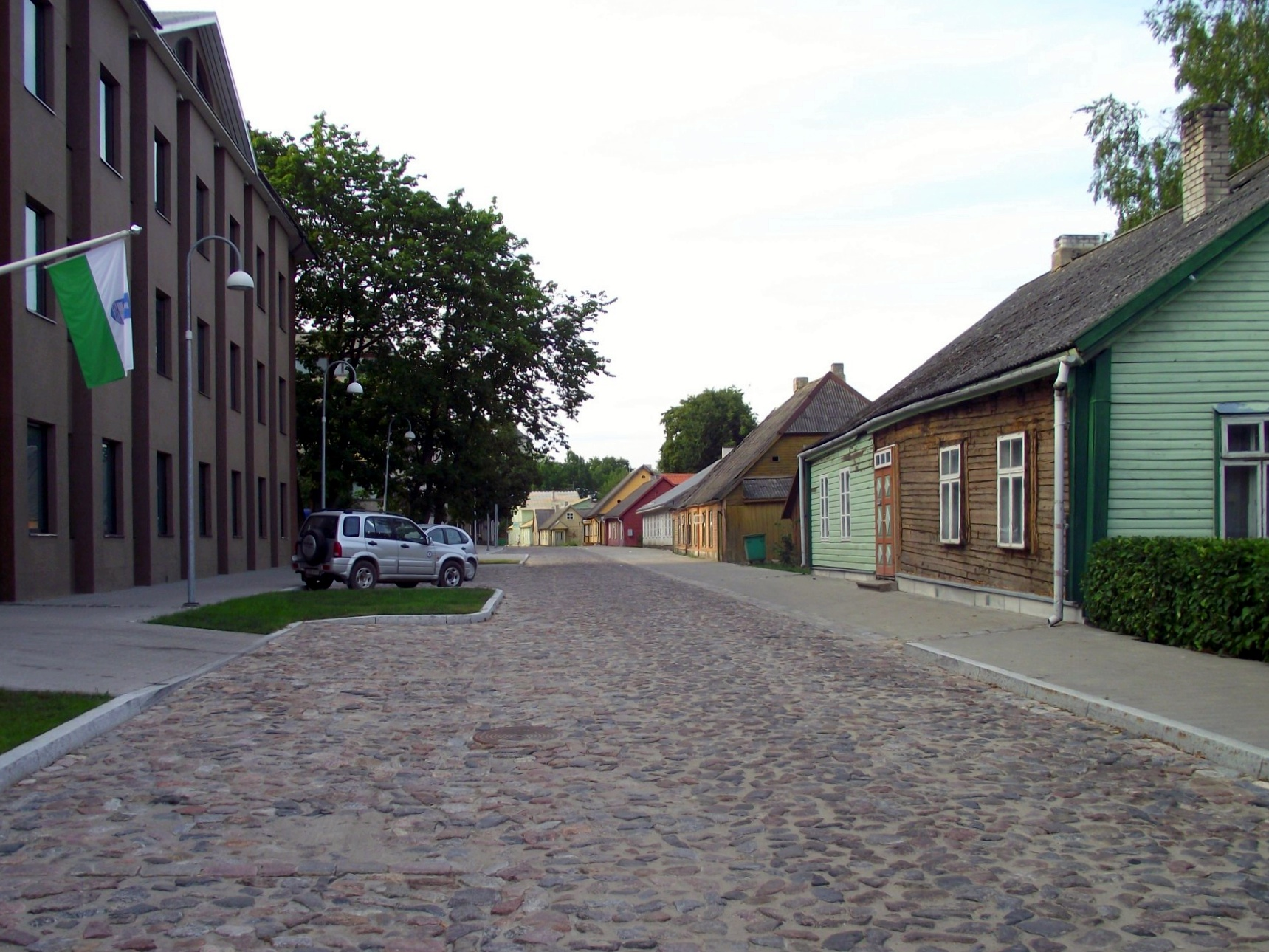 Rüütli (Knight's) street in Paide